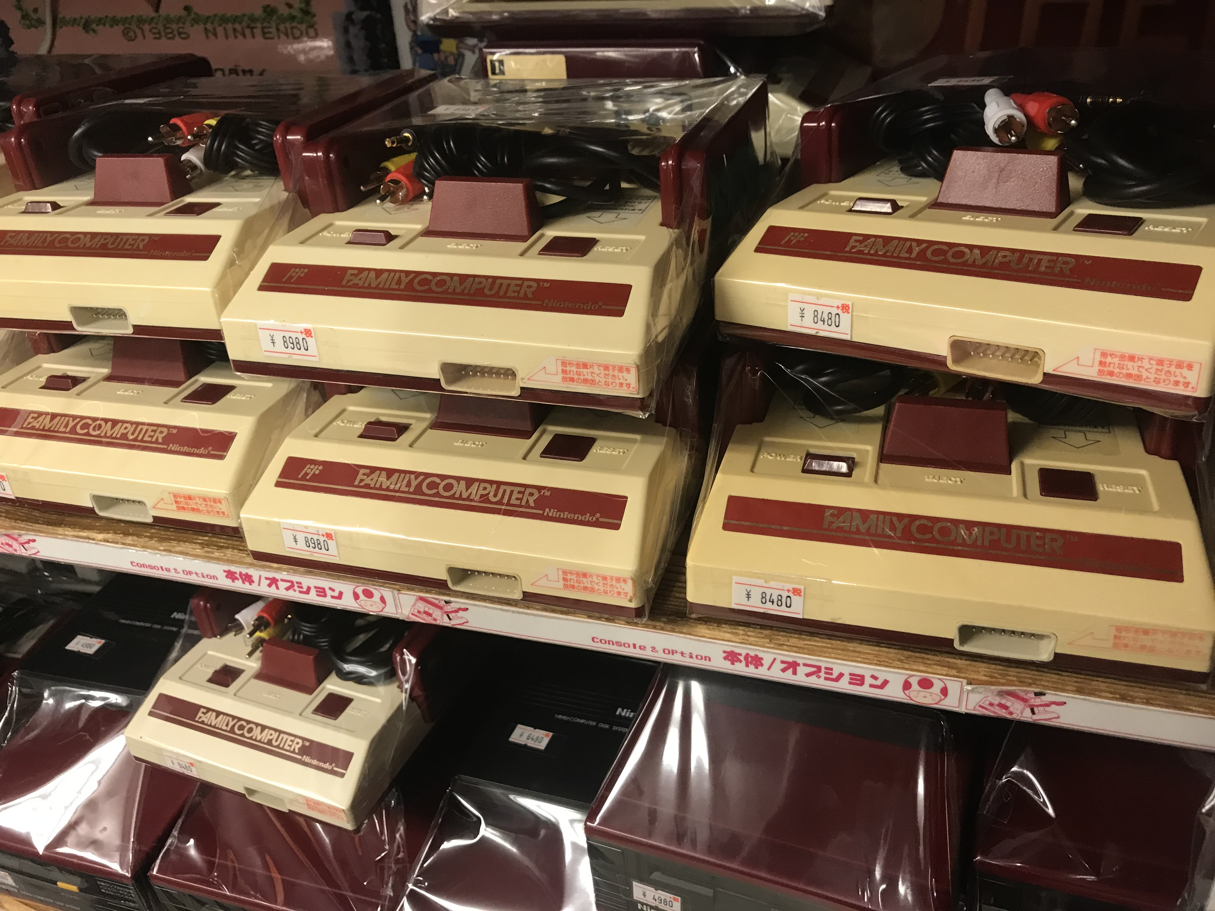 Honeymoon in Japan